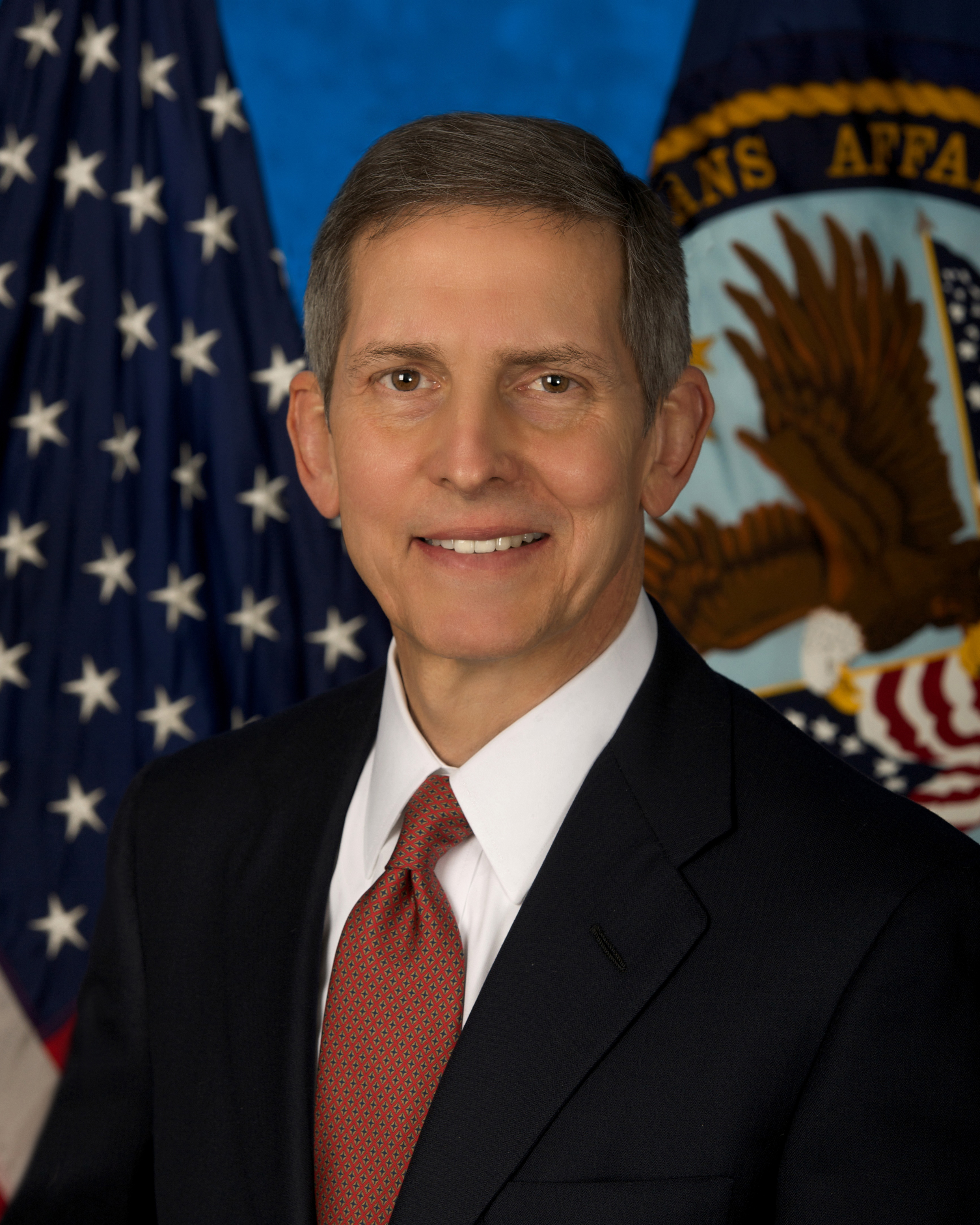 Sloan Gibson is the current Deputy Secretary of the U.S. Department of Veterans Affairs.